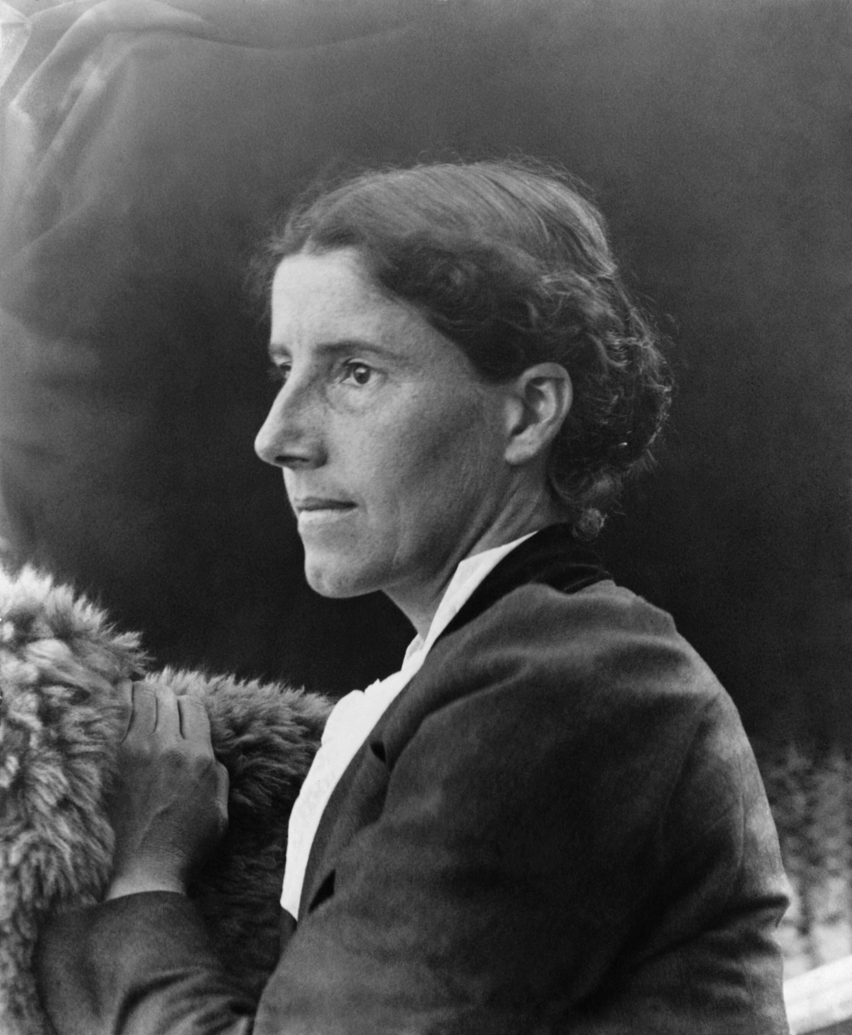 Photographic portrait of Charlotte Perkins Gilman, American author, c. 1900.